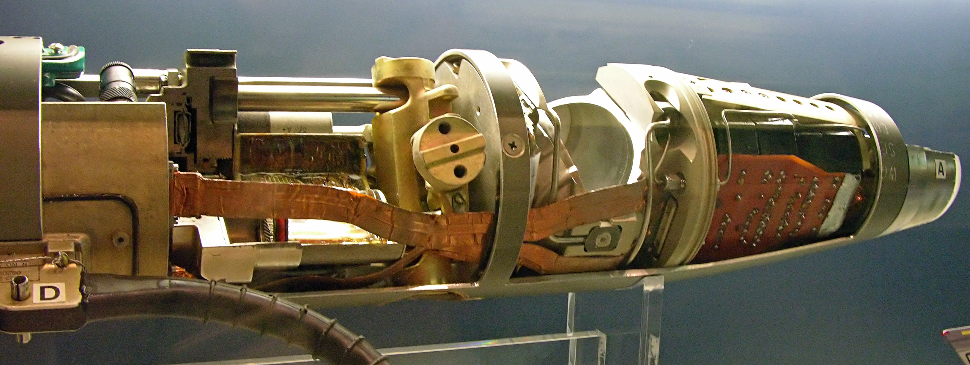 AIM-9L front section